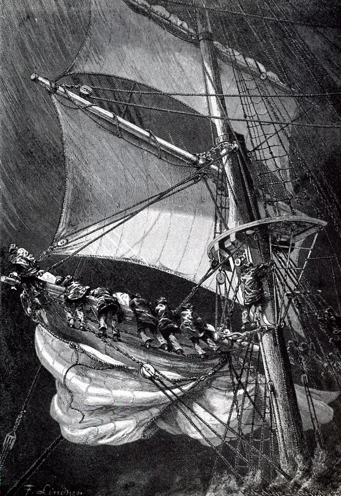 Sailors while reefing a square rig